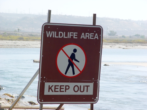 "KEEP OUT" sign near the mouth of Los Peñasquitos Lagoon (Los Peñasquitos Marsh Natural Preserve and Lagoon).